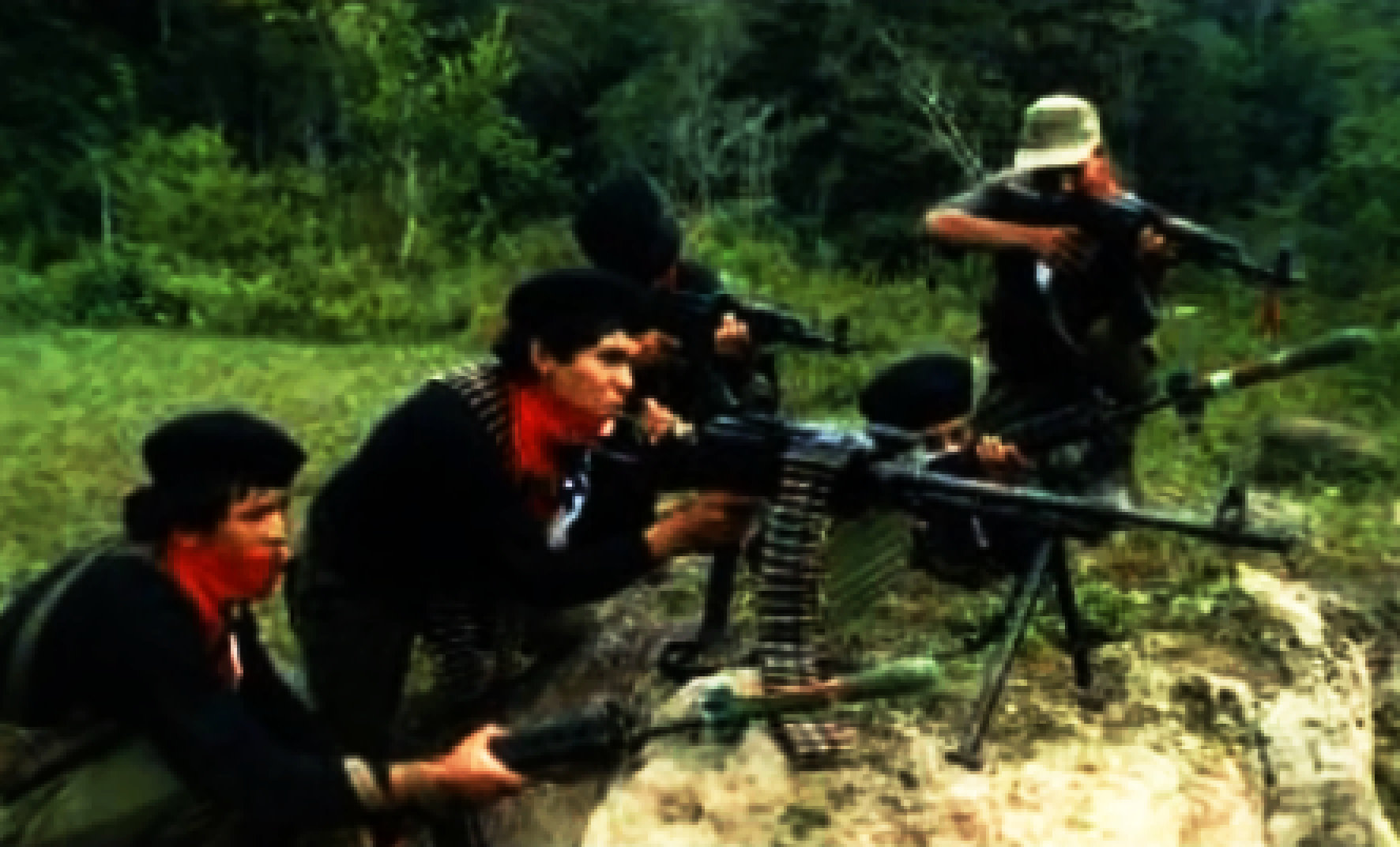 MRTA guerrillas during the first government of Alan García raised in Public Domain by the same terrorist group.